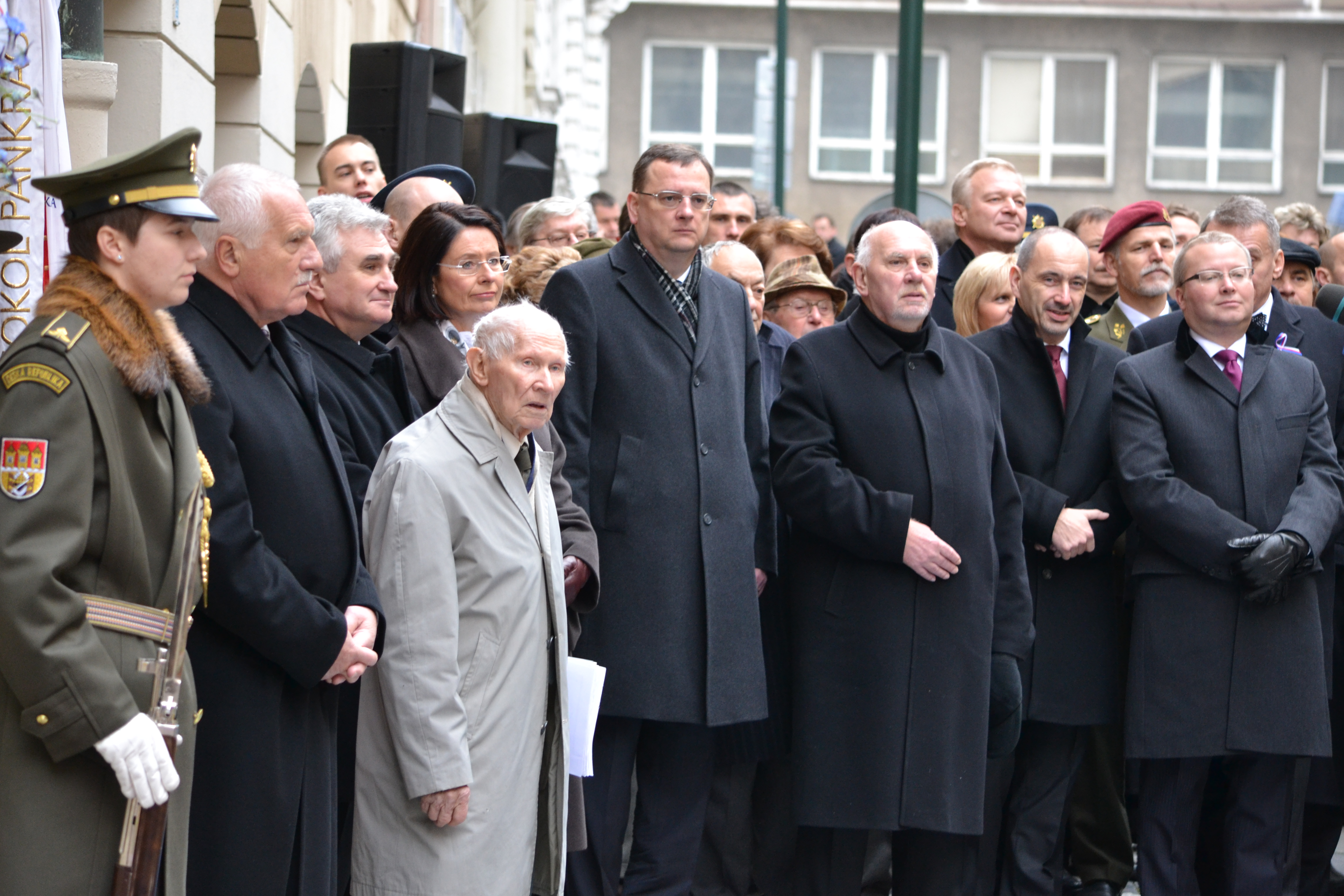 from left (next to the soldier): Václav Klaus, Milan Štěch, Jan Šabršula (standing in front, witness of 17 Nov.1939 events), Miroslava Němcová, Petr Nečas, Pavel Rychetský, Martin Kuba, Tomáš Chalupa